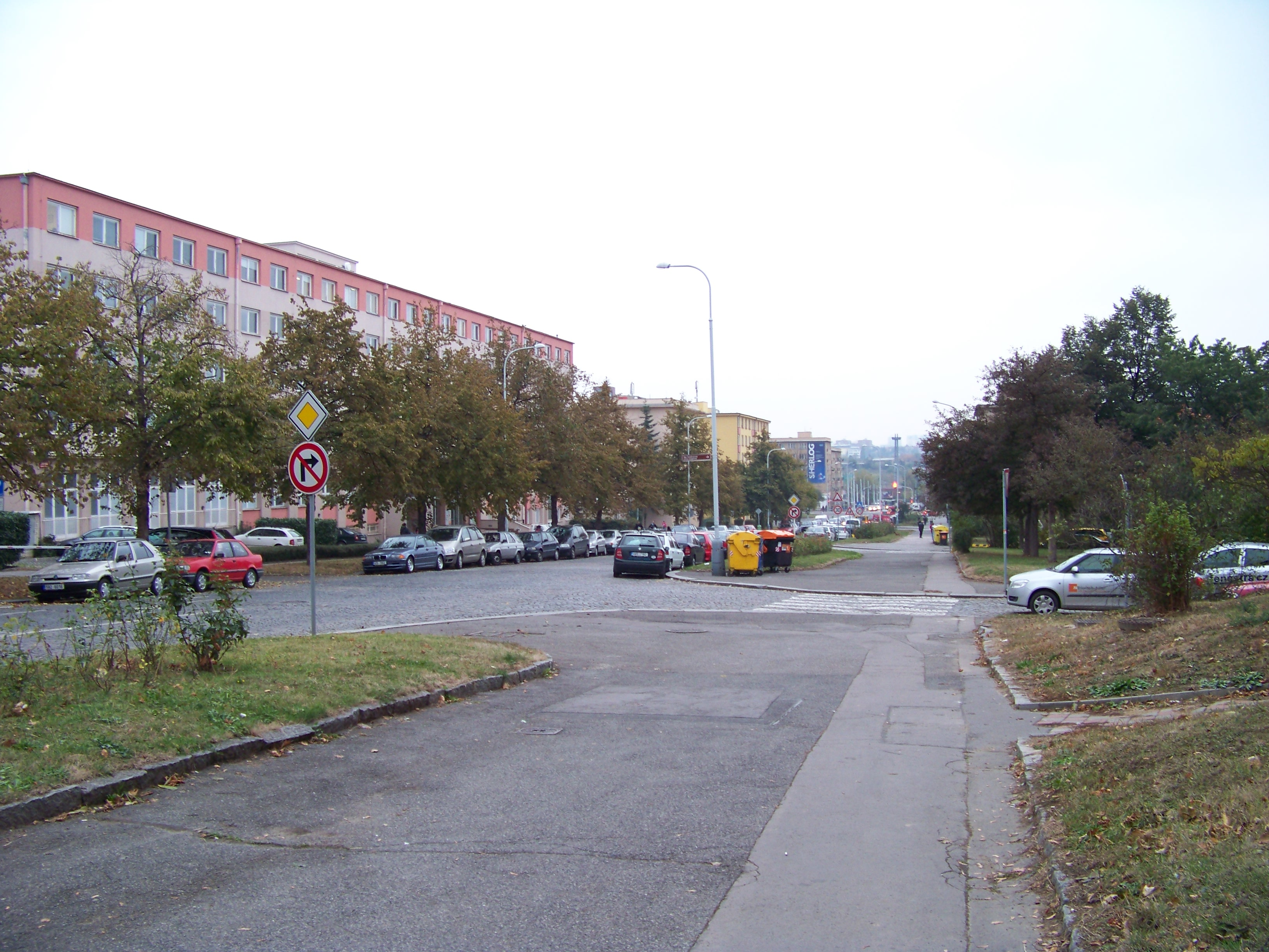 Vršovice, Prague, the Czech Republic. Litevská Street. - Google Maps - Google Earth